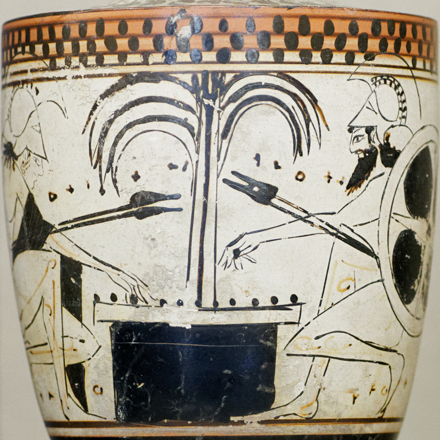 Achilles (on the left) and Ajax the Great (on the right) playing dice, identified by inscriptions. Detail of a white-figure Attic lekythos.